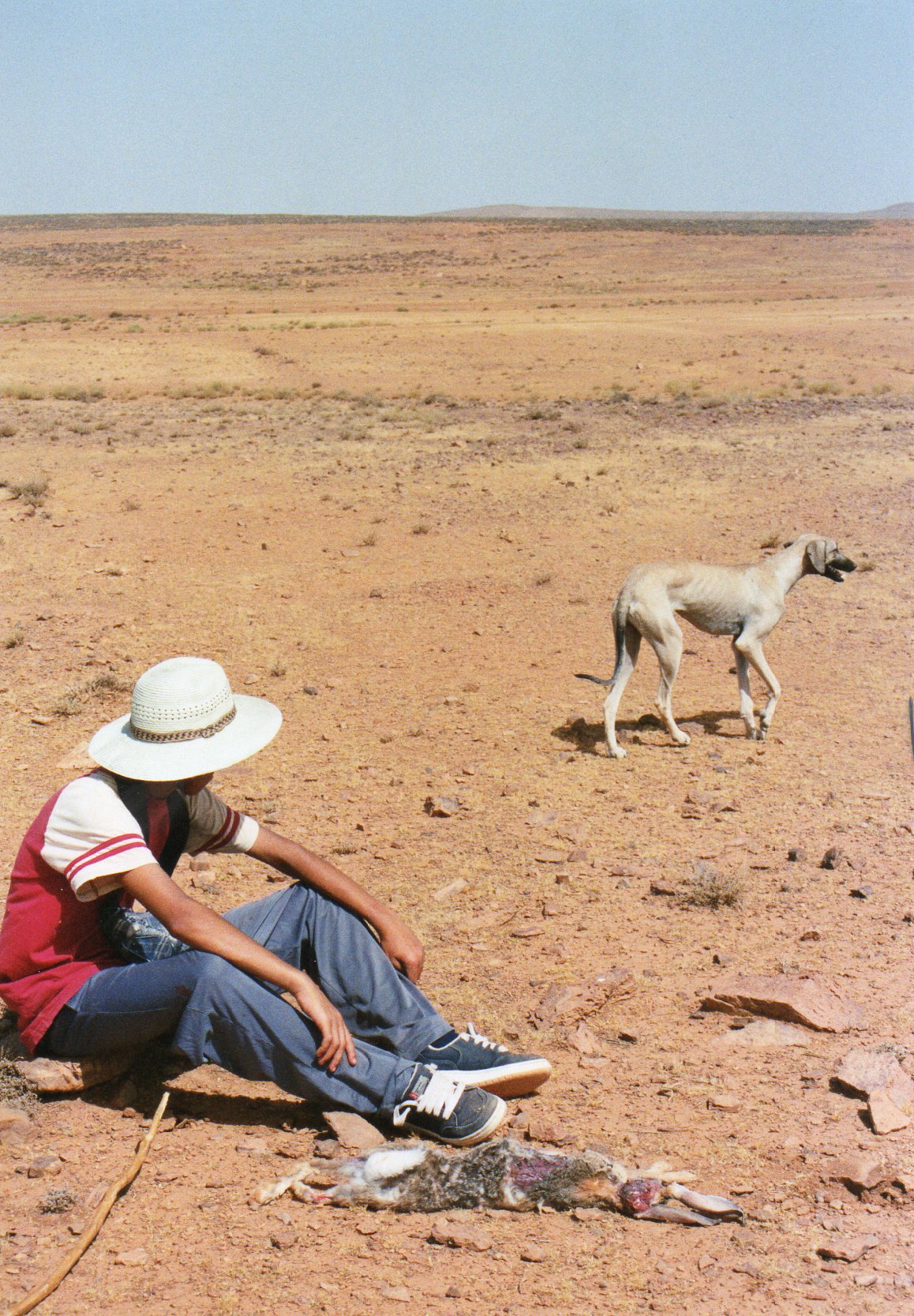 Rabit hunter in Morocco. Clandestine hunting with greyhounds.